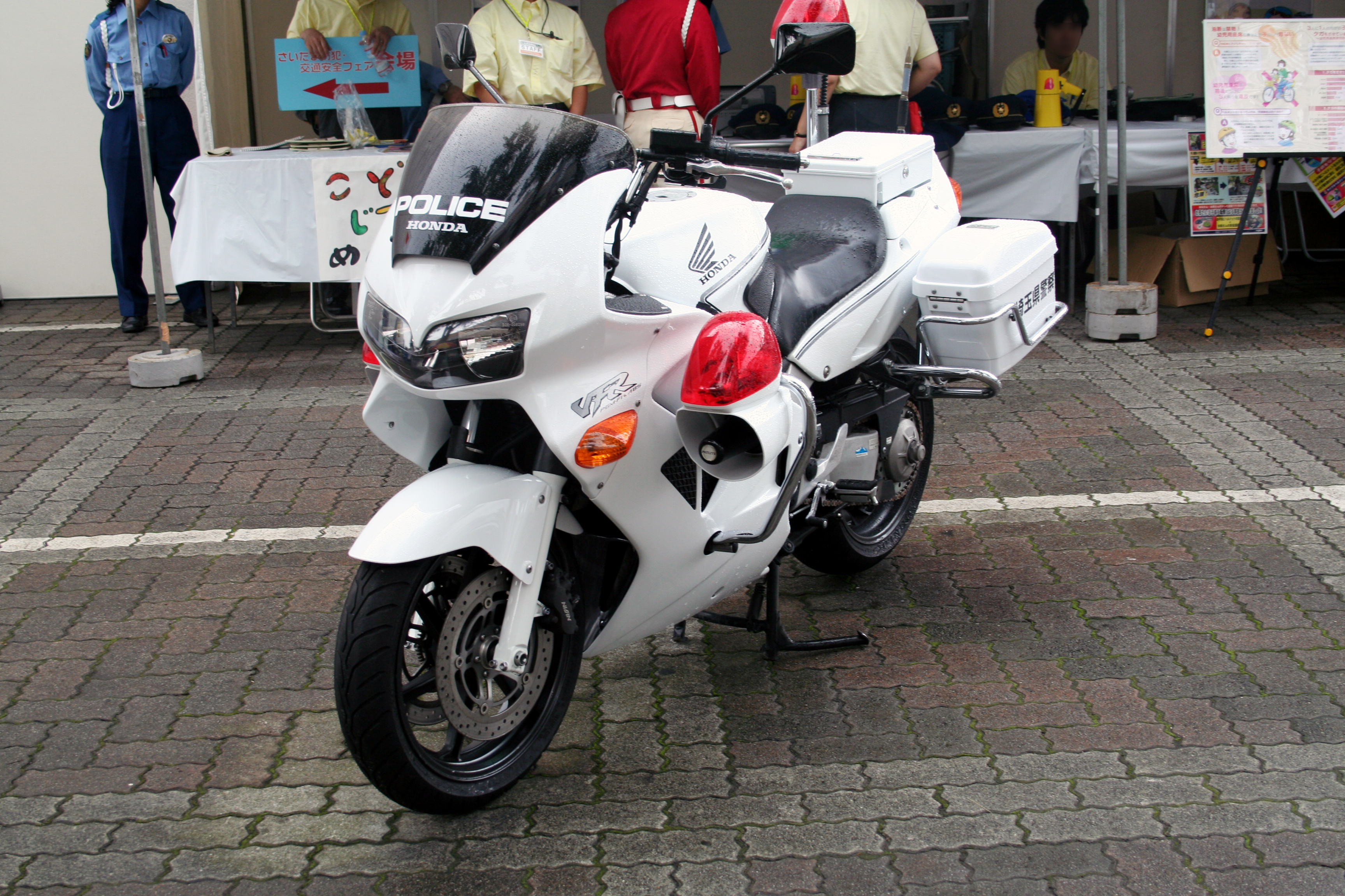 Japanese police motorcycle HONDA VFR800P in Saitama prefecture.